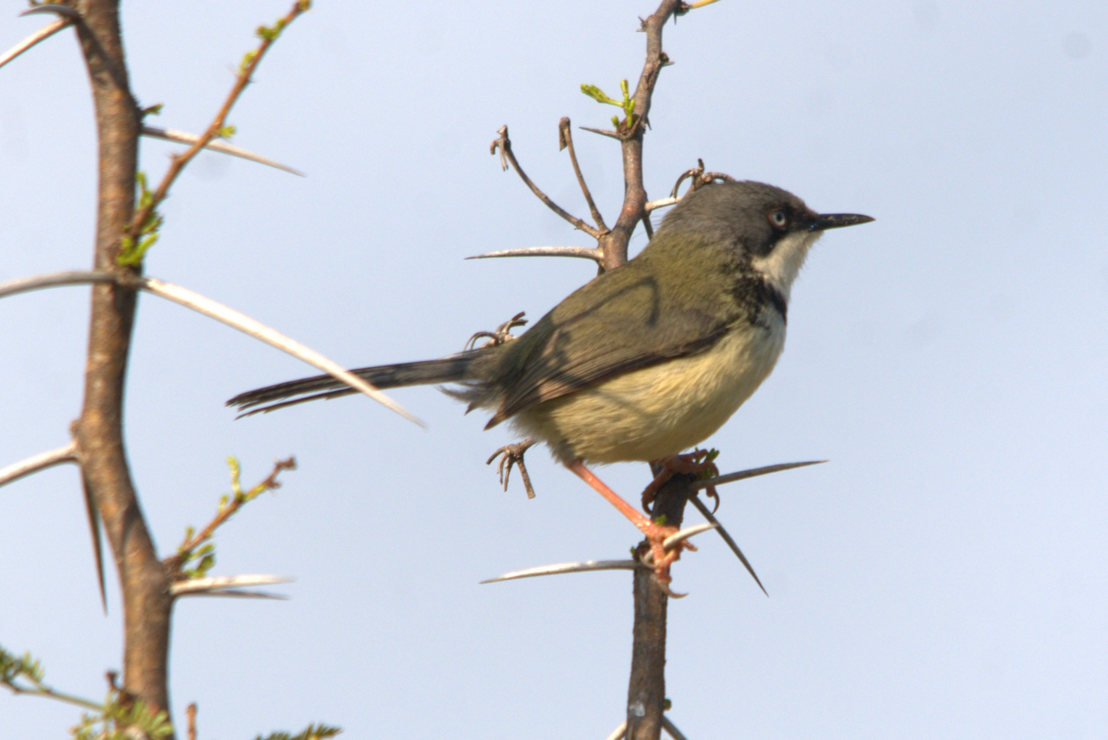 Bar-throated Apalis in Addo Elephant National Park, Eastern Cape